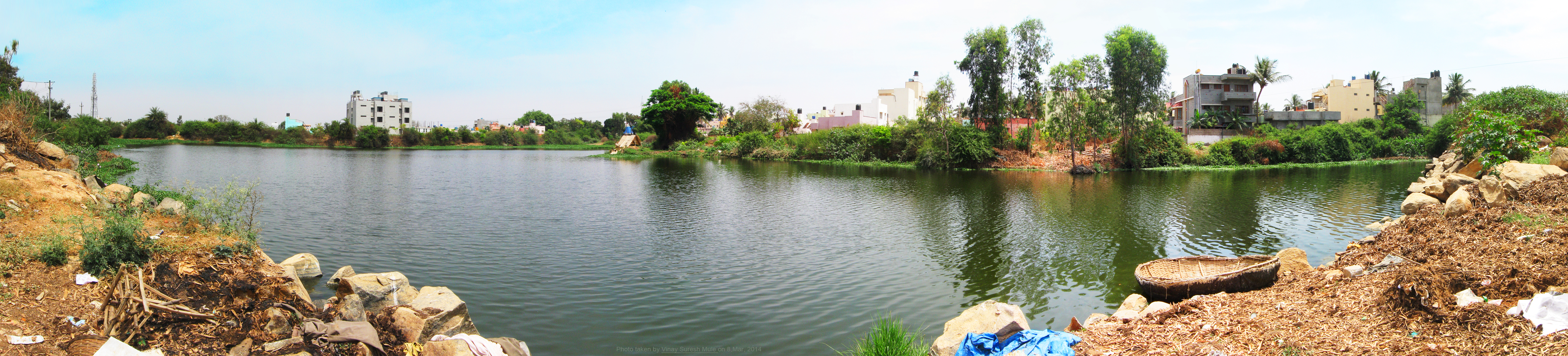 Panoramic view of Varanasi Lake in Ramamurthy Nagar